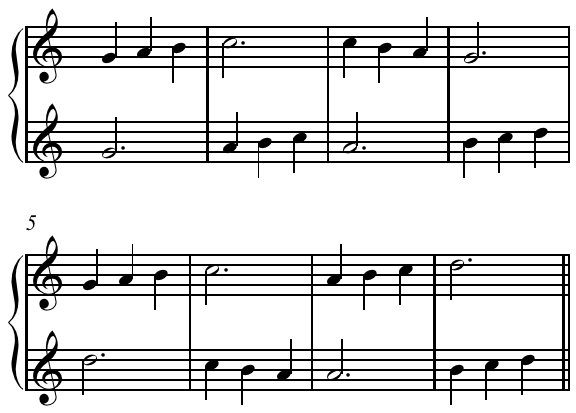 Table canon. Created by Hyacinth (talk) 01:35, 10 November 2011 (UTC) using Sibelius 5.